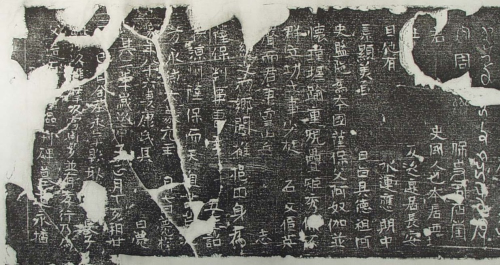 Rubbing of the Sogdian-Chinese bilingual epitaph of the sa-pao Wirkak, part 2 in Chinese.